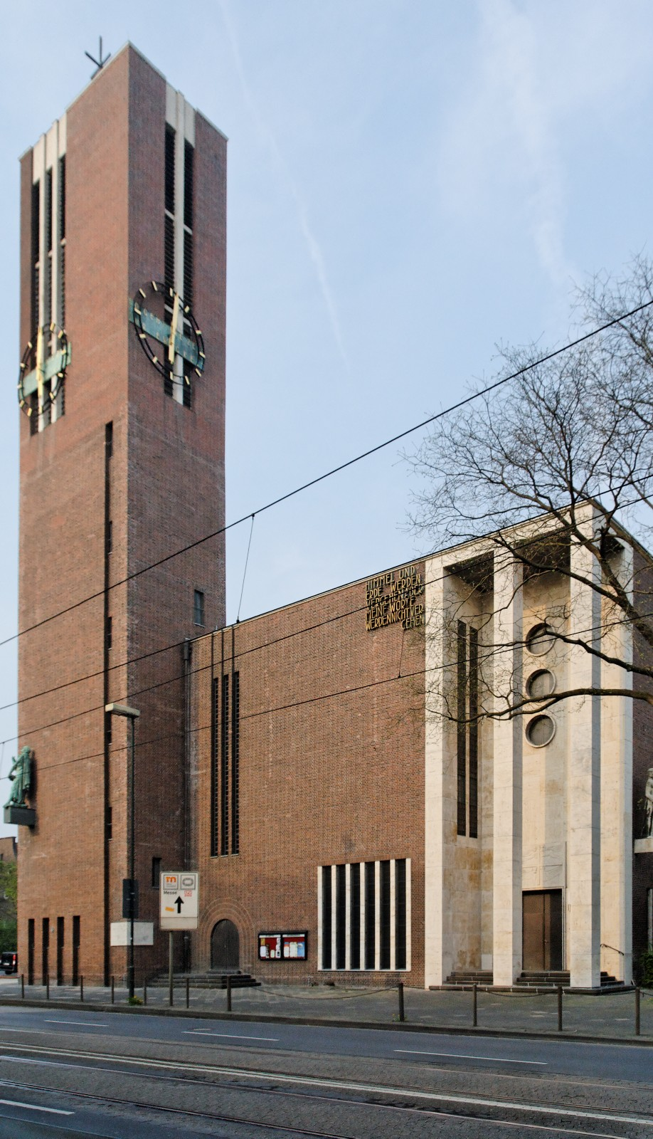 Matthäi Church in Düsseldorf-Düsseltal, Germany